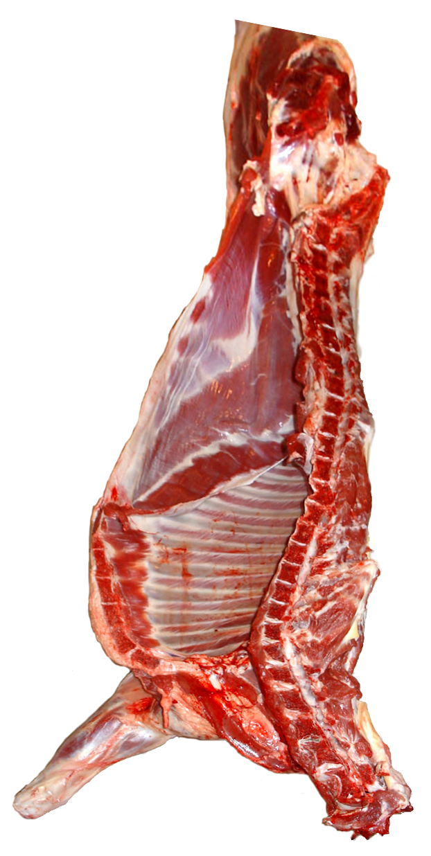 Mutton meat